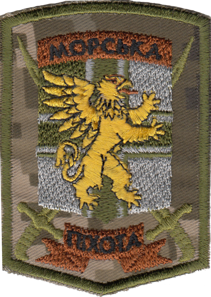 Shoulder mark 501st separate battalion of marines, field